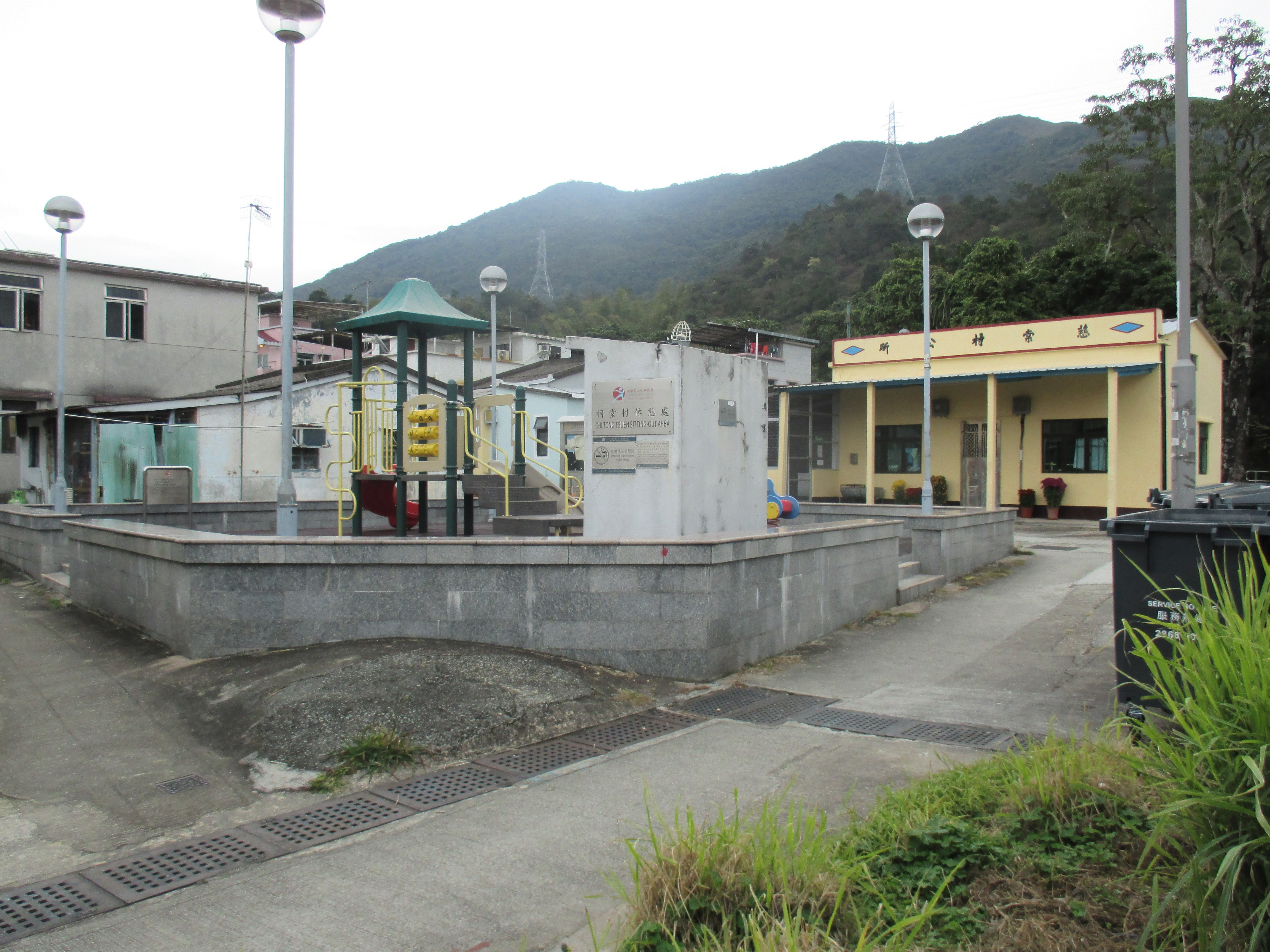 Tsz Tong Tsuen (Lung Yeuk Tau). The building on the right is Tsz Tong Tsuen Village Office (慈堂村村公所).